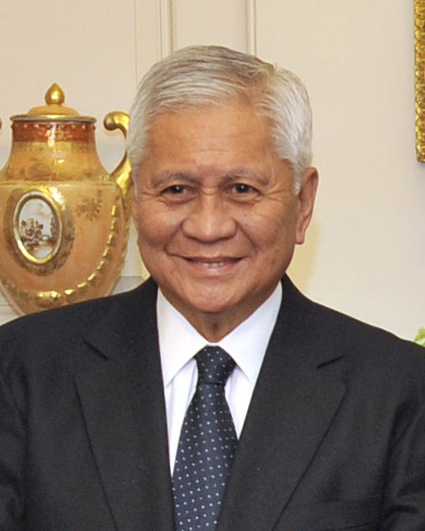 Filipino Secretary of Foreign Affairs Albert del Rosario prior to a meeting at the State Department Monday, April 30, 2012, in Washington, D.C. (DoD Photo By Glenn Fawcett)(Released)